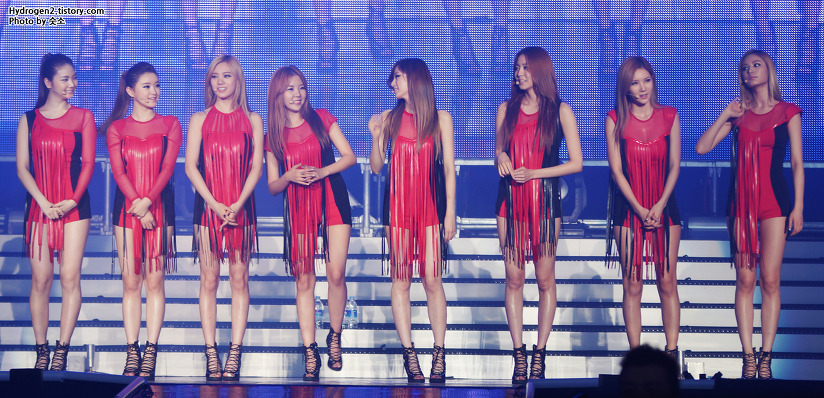 After School performing during the Guess party, July 2012.